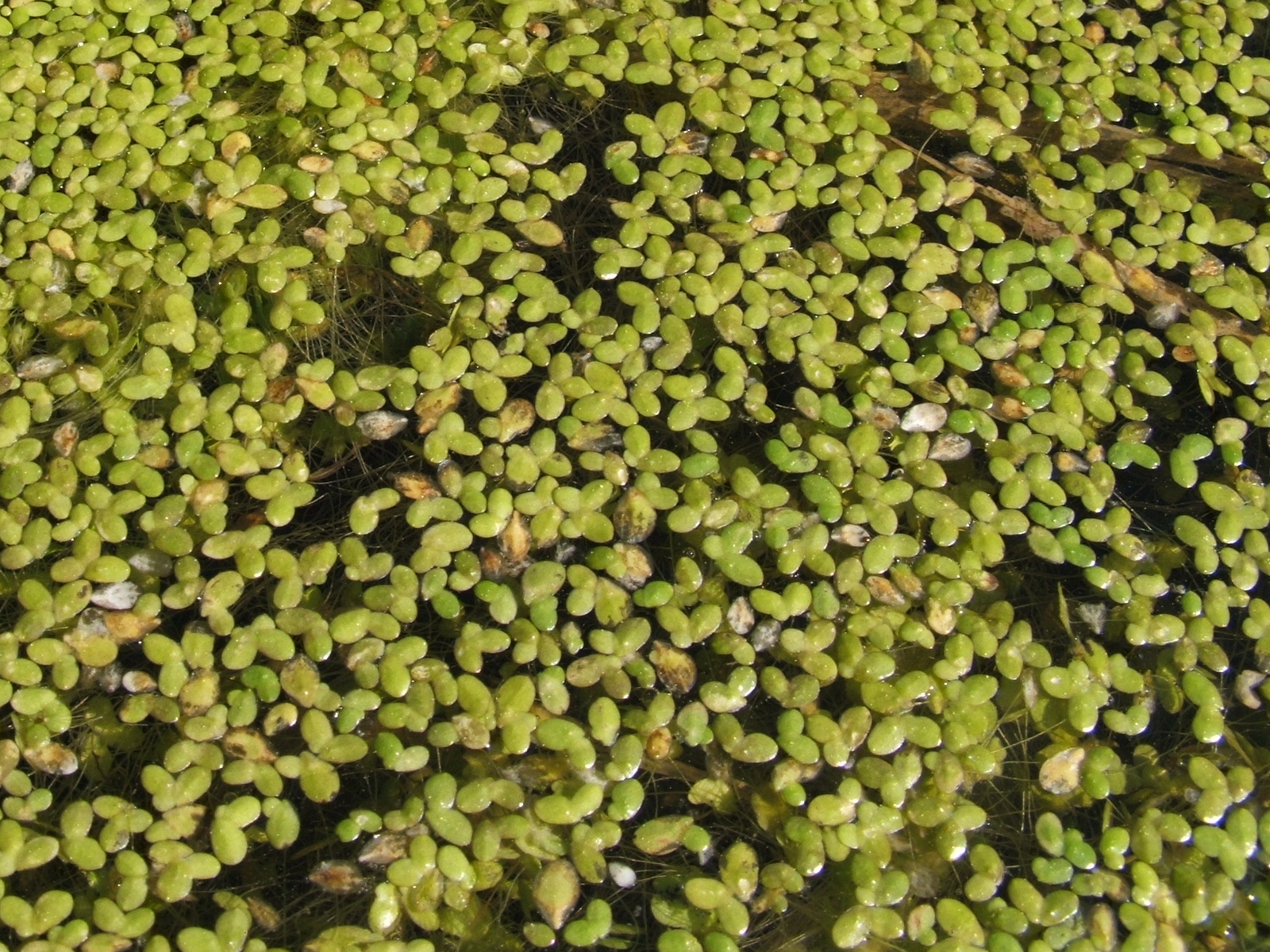 Lemna minor